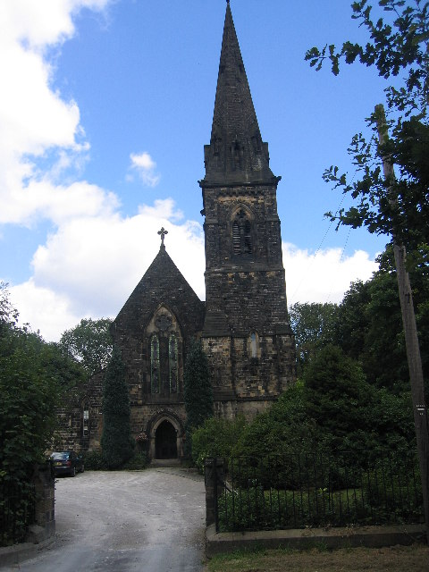 St James House, Danes Road, Rusholme, Greater Manchester, seen from the west. Copmpleted as a parish church in 1846, the building in is now a nursing home.